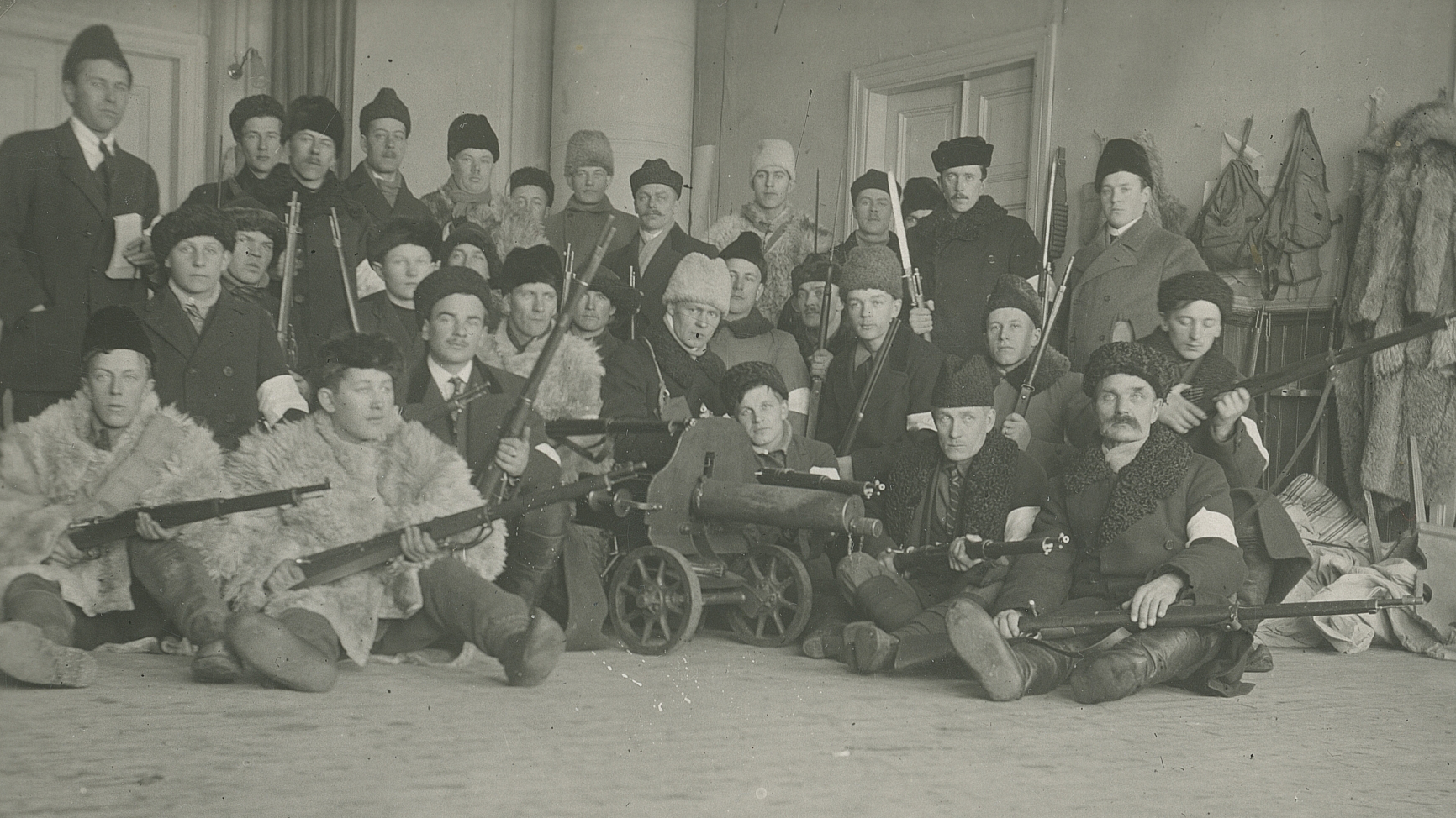 White Guard soldiers after the 1918 Finnish Civil War Battle of Tornio.